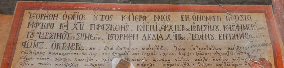 Saint Petka Church in Skochivir Fresco 01